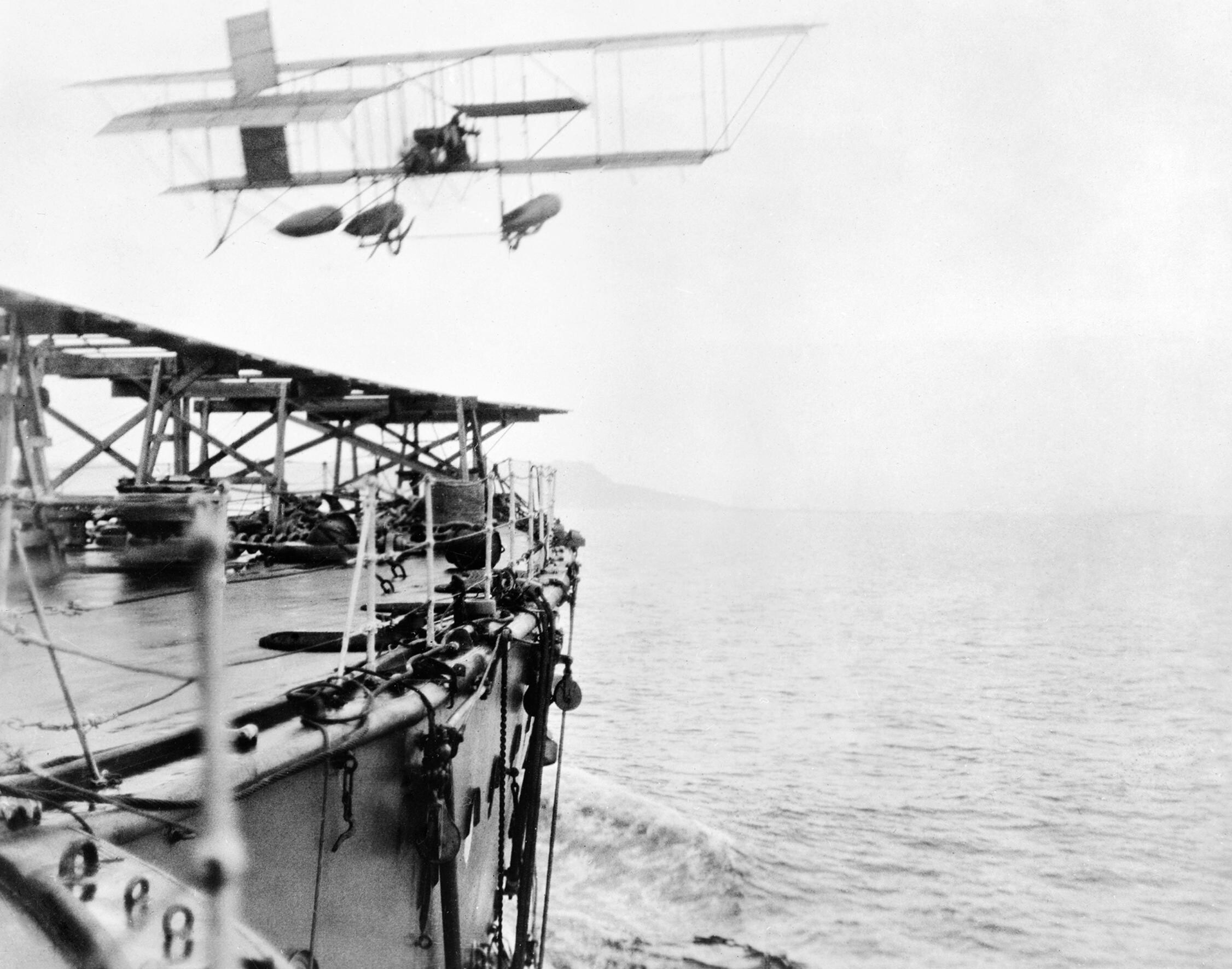 AWM caption : "This image shows the moment Commander C Samson of the Royal Naval Air Service took off from HMS HIBERNIA in his modified Shorts S.38 “hydro-aeroplane” to be the first pilot to take off from a ship underway at sea. The S.38 T.2 aircraft had air-bag floats to enable landing on water and was launched via a trolley-shuttle system off of a ramp which stretched from Hibernia’s bridge to bow, over her forward 12 inch guns."